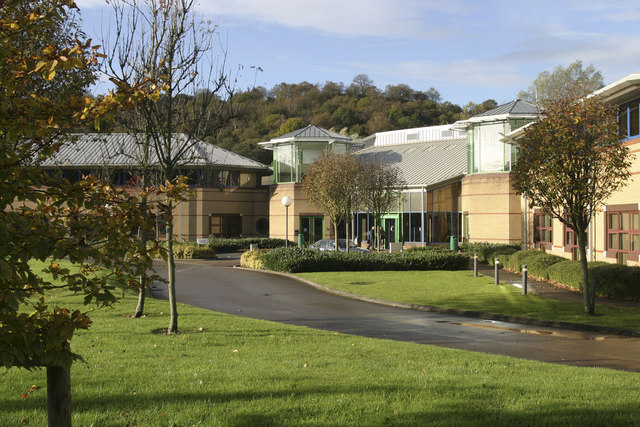 QED Centre, Tresforest Industrial Estate One of the more recent buildings on the Treforest Industrial Estate. A divisional office of the Welsh Assembly Government.